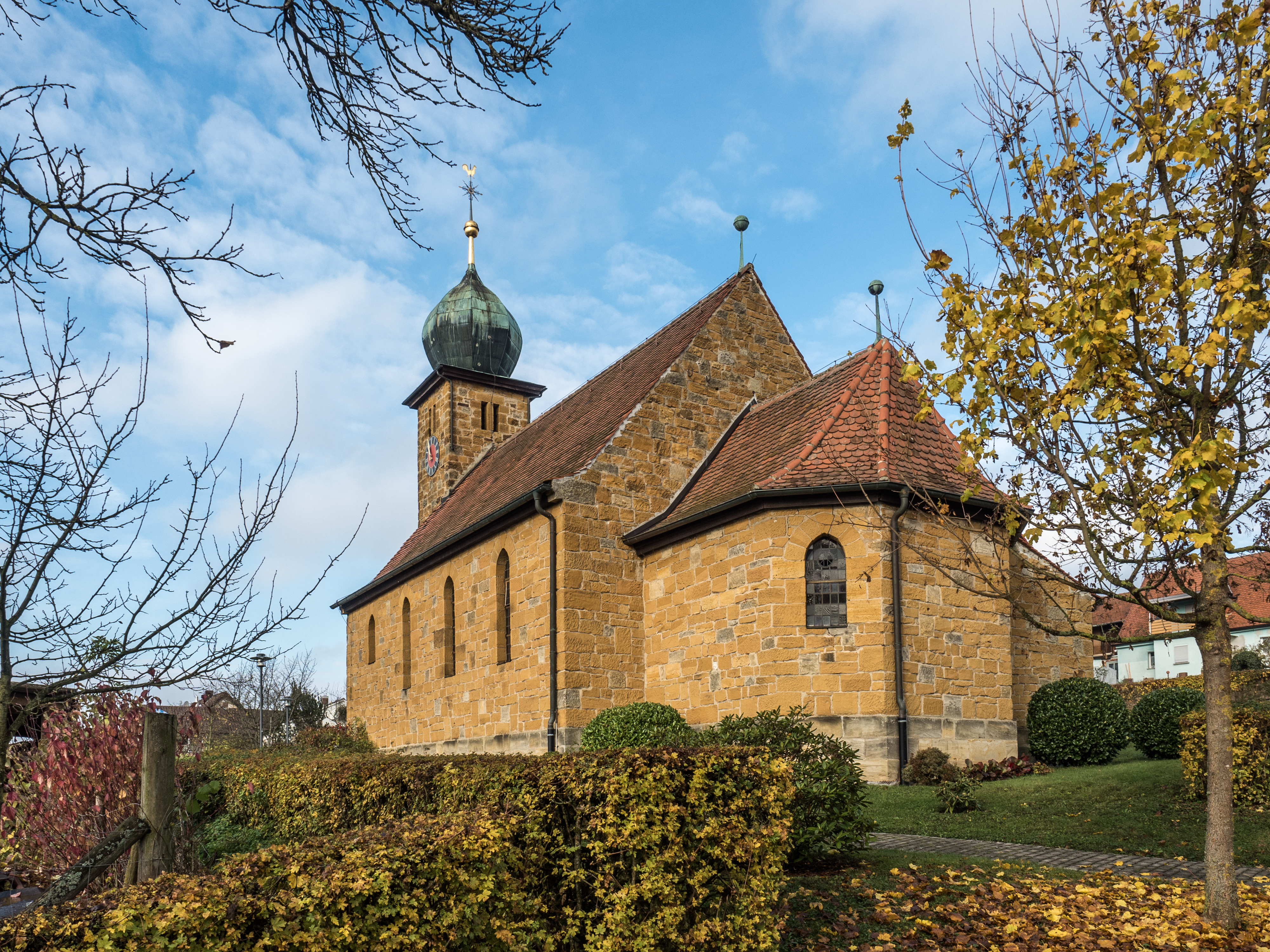 Catholic church St. Michael in Seigendorf near Hirschaid